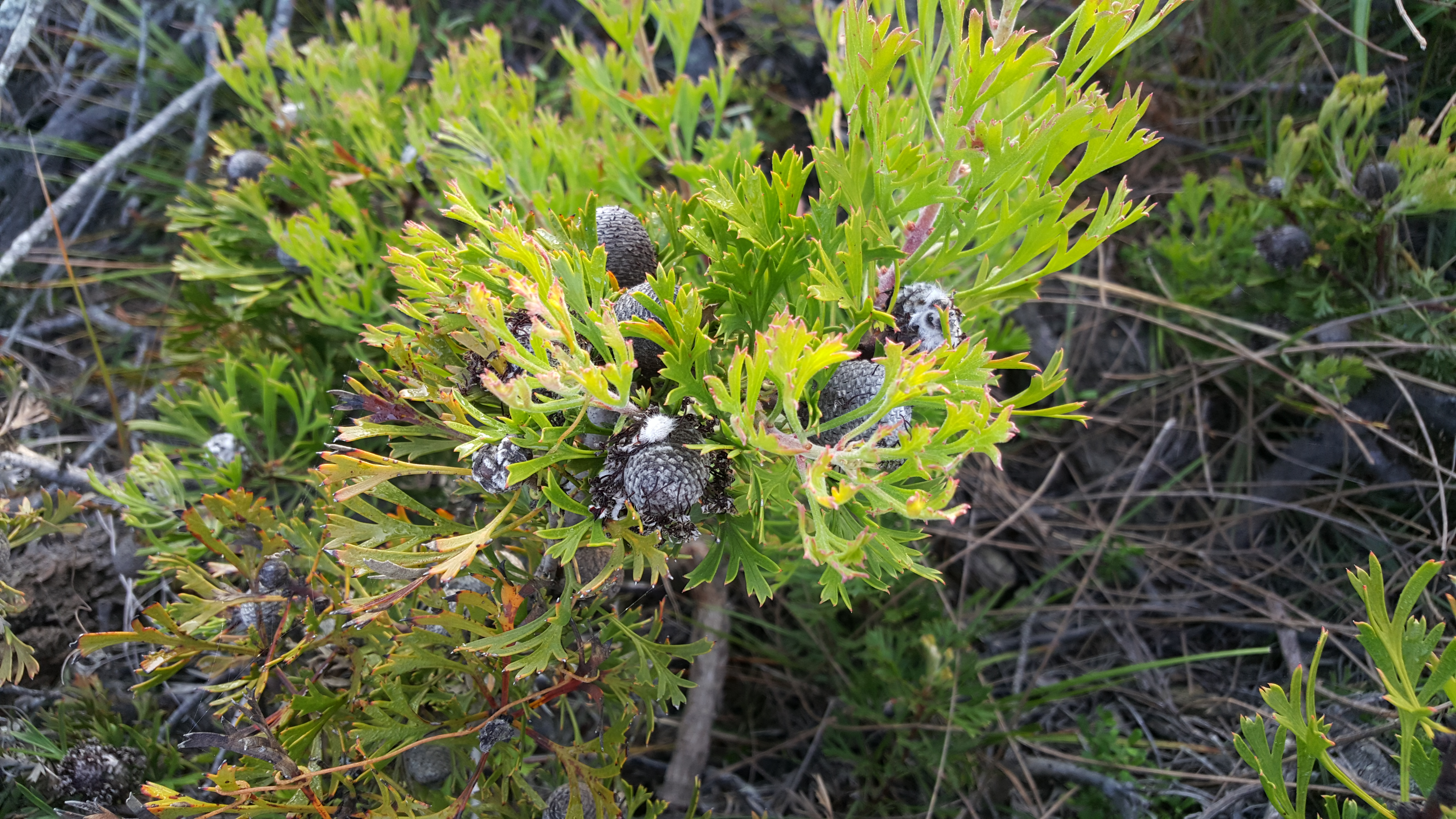 Isopogon anemonifolius - Wybung Head